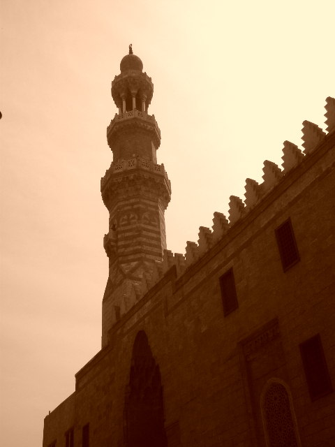 Minaret of Al-Amir Sarghtmash Madrasa, Cairo